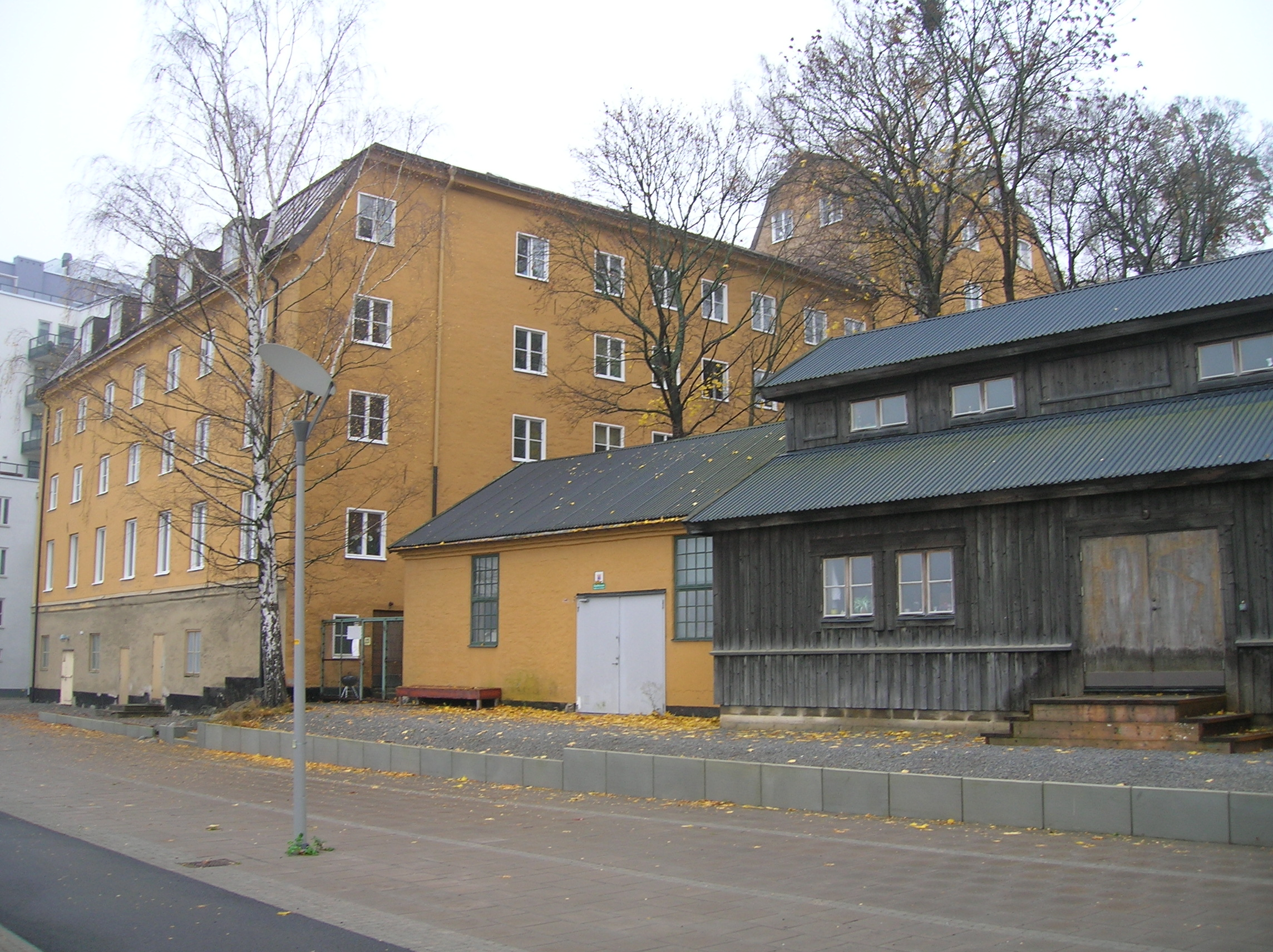 the former building of Danviks dårhus at Danviken, Nacka municipality, Stockholm county, Sweden